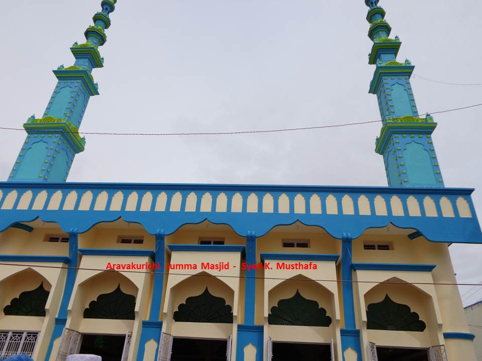 Aravakurichi Jumma Masjid - Syed K. Musthafa